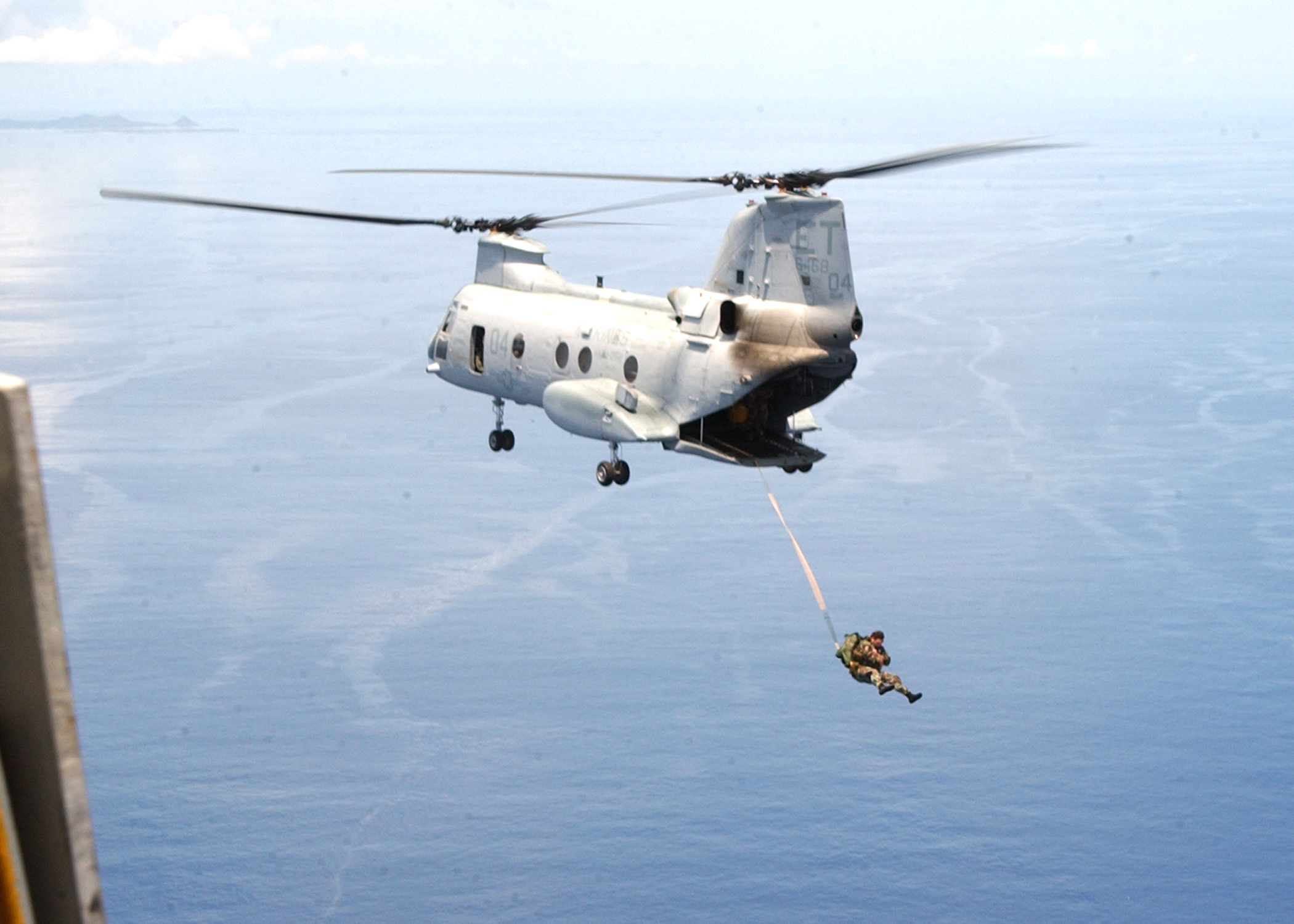 Okinawa, Japan (Aug. 4, 2004) – A soldier assigned to the First Battalion of First Special Operations Airborne Unit, Torii Station, Okinawa, Japan, performs a static jump out of a CH-46E Sea Knight helicopter assigned to the “Flying Tigers” of Marine Helicopter Medium Squadron Two Six Two (HMM-262). HMM-262 is assigned to Marine Corps Air Station Futenma. U.S. Navy photo by Photographer’s Mate 3rd Class Kaitlyn Rae Vargo (RELEASED)